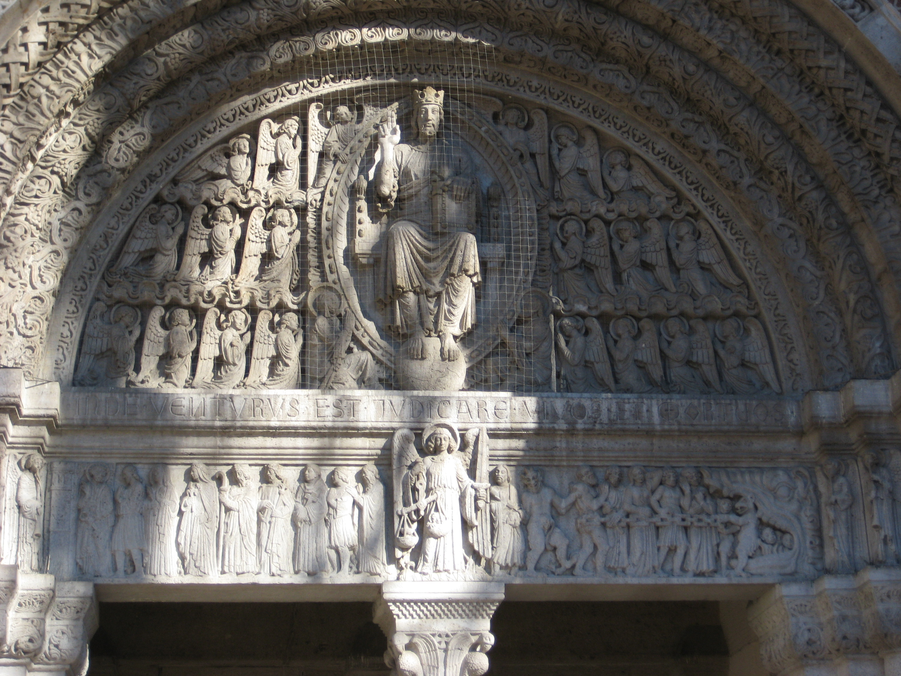 Tympanum of portal of St. Anne's in Lehel (Parish Church) in Munich